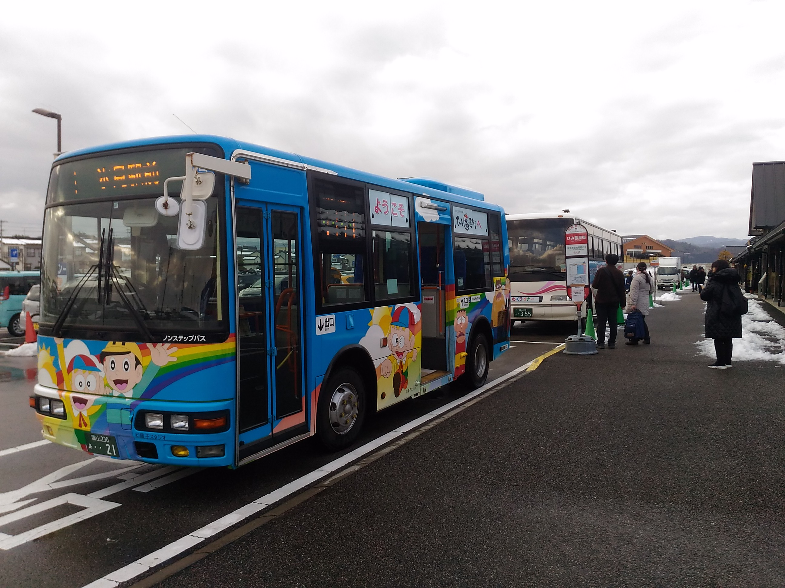 Himibanyagai stop. The bus in front is "Himishigaichishuyu Bus" returning to Himi station. Bus in behind is "Waku-liner Express" for Wakura Onsen.